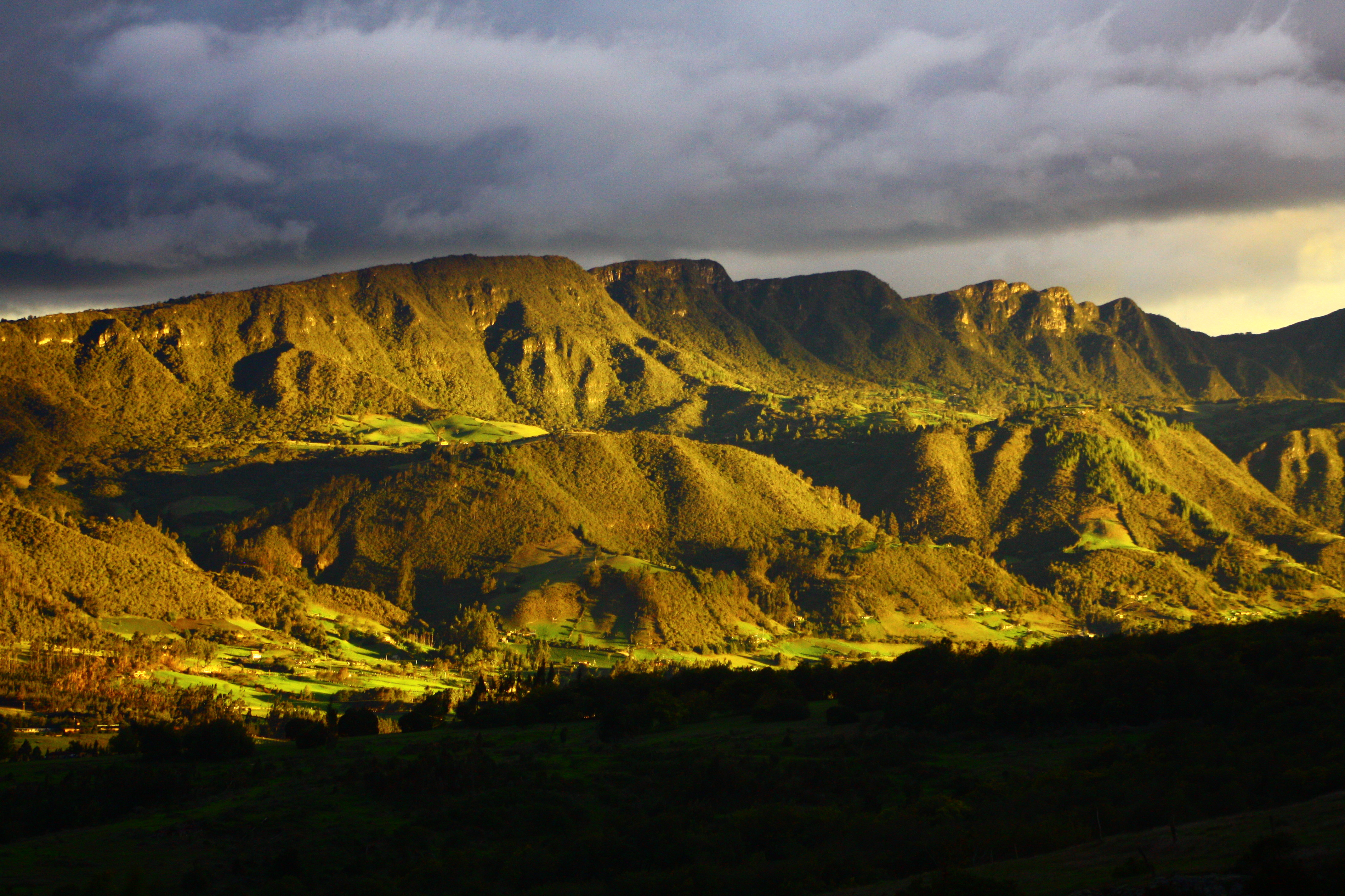 Sesquile from the falcon valey "suesca"